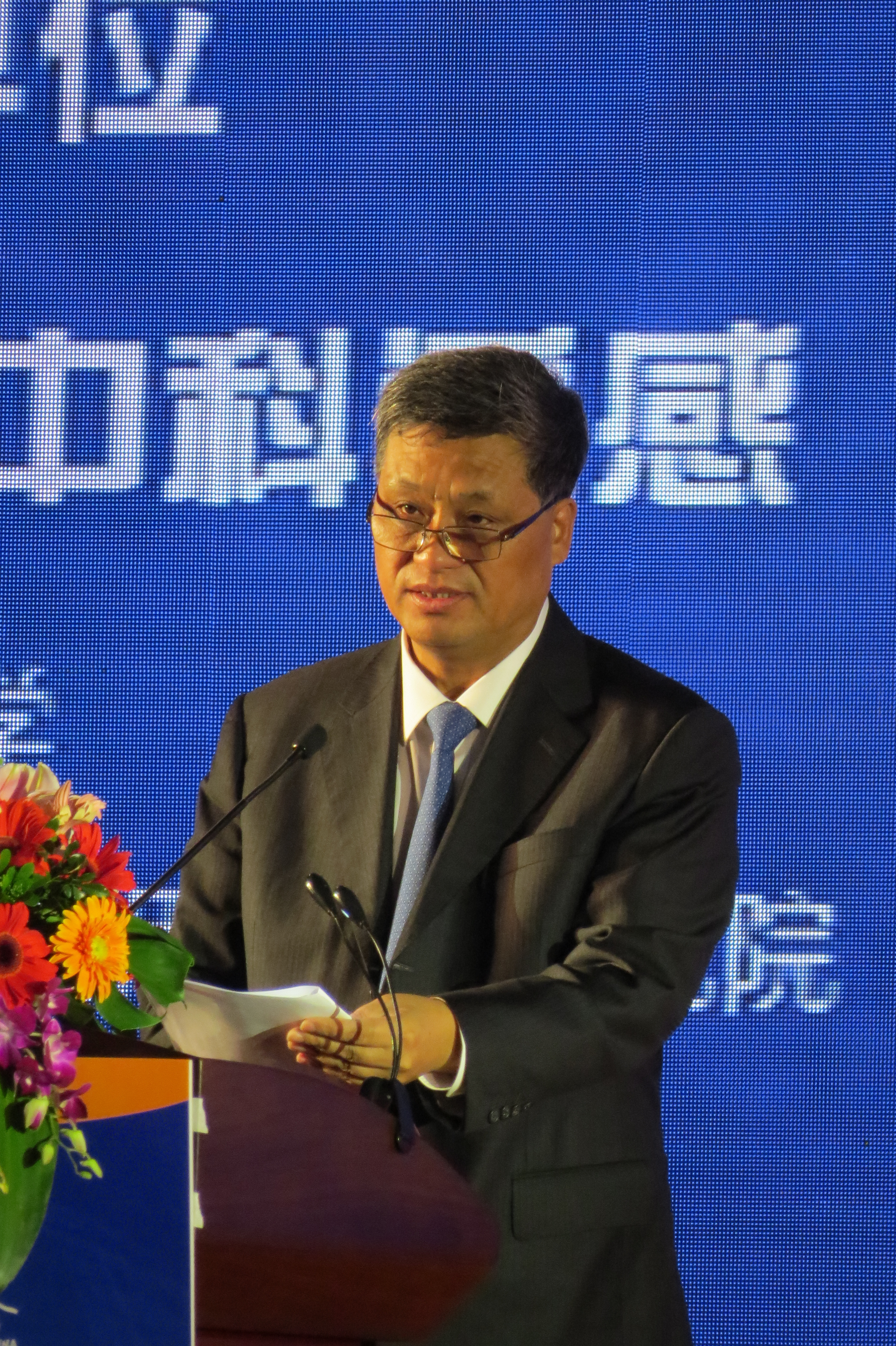 Here, the Communist Party Secretary of Shenzhen is seen delivering an address on the opening ceremony of 20CRSC.